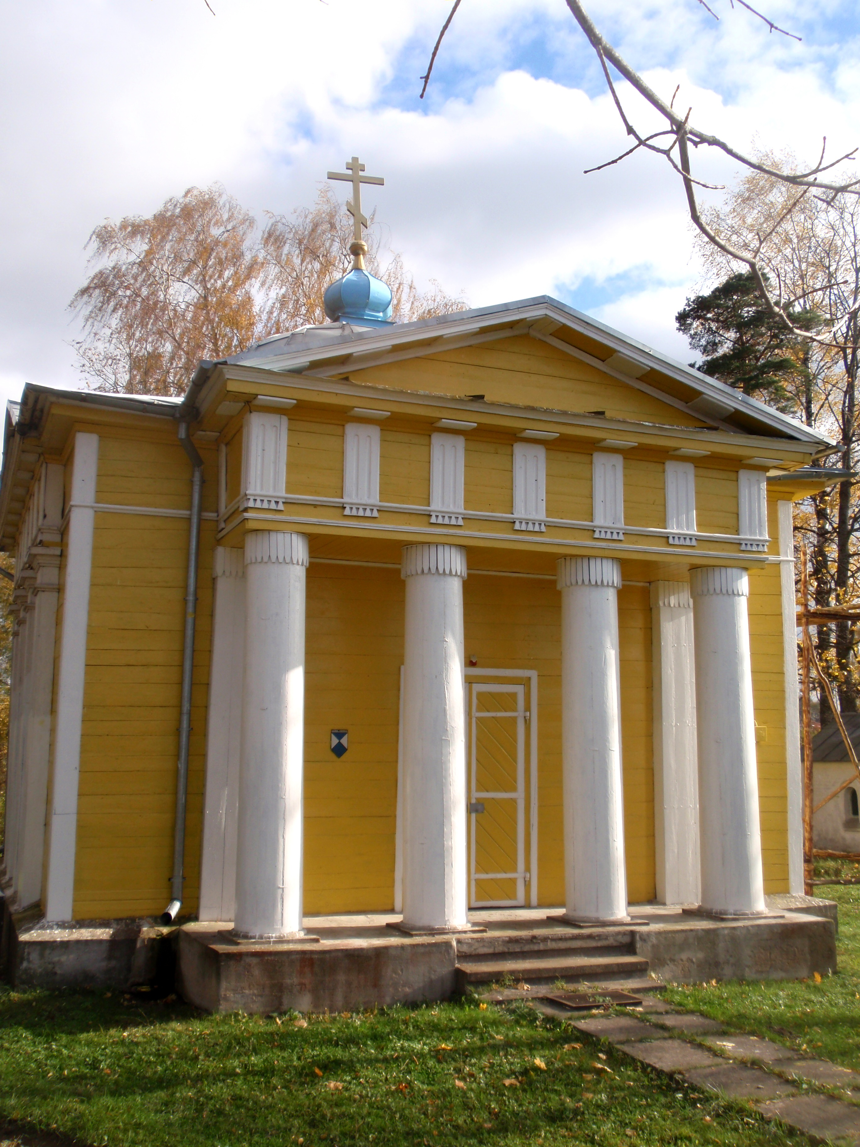 Building in Latvia